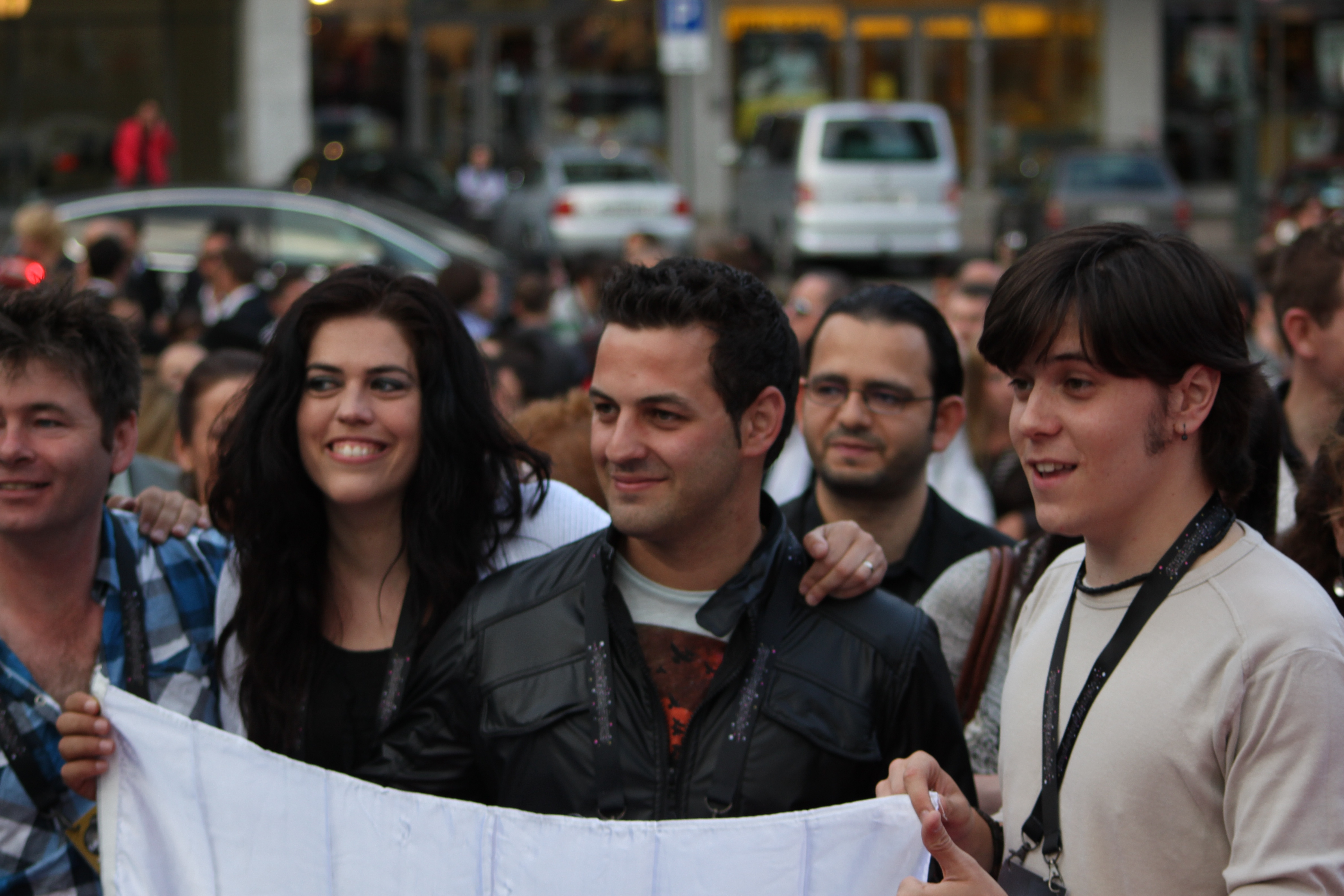 Jon Lilygreen & The Islanders at Welcome party by Vincent Hasselgård, Aktiv I Oslo.no